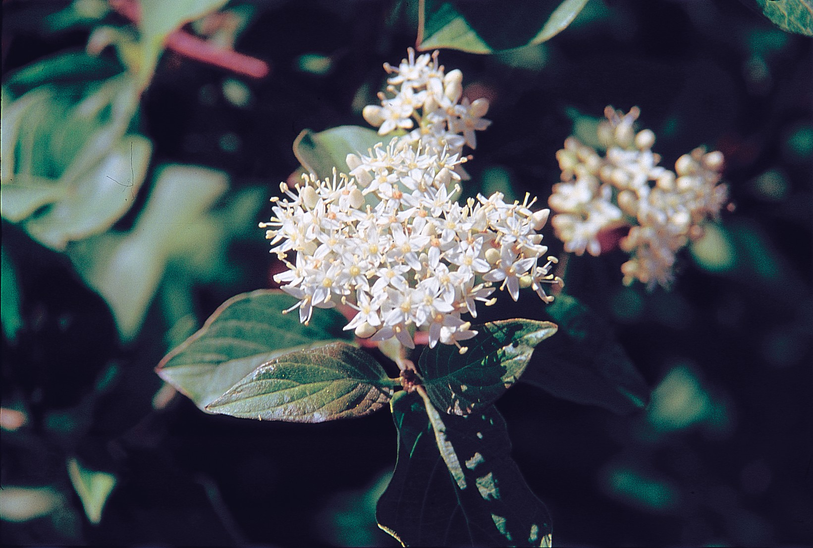 inflorescence of Cornus sericea